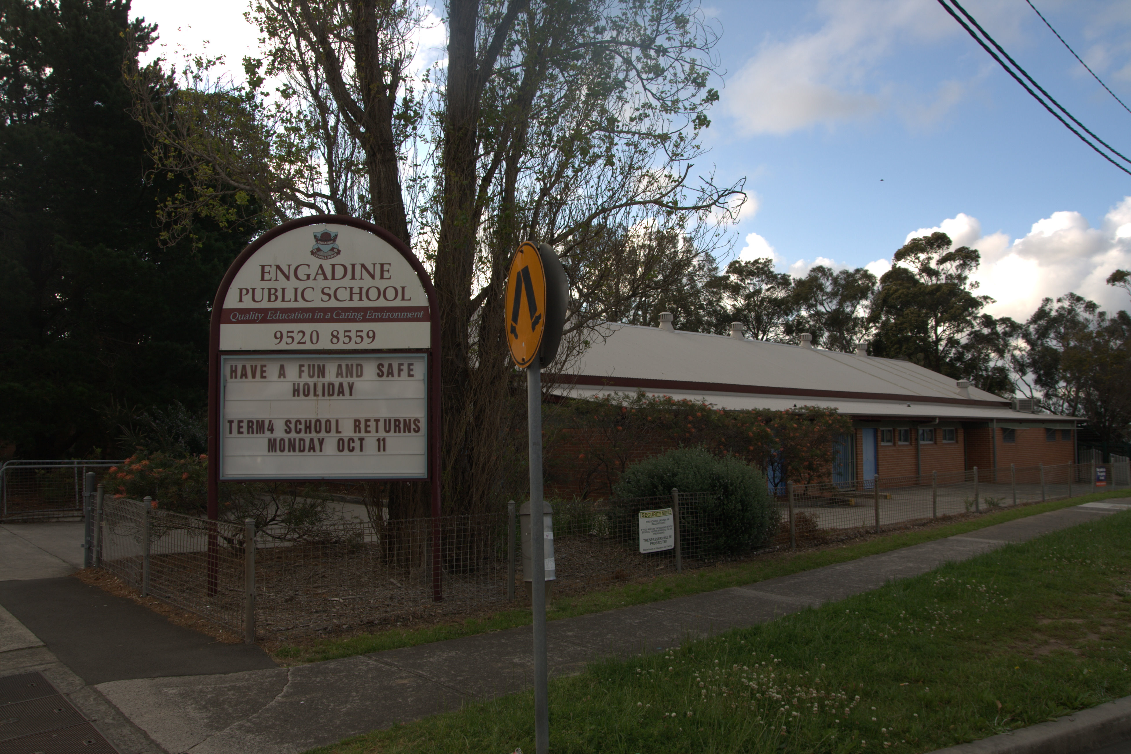 Engadine Public School